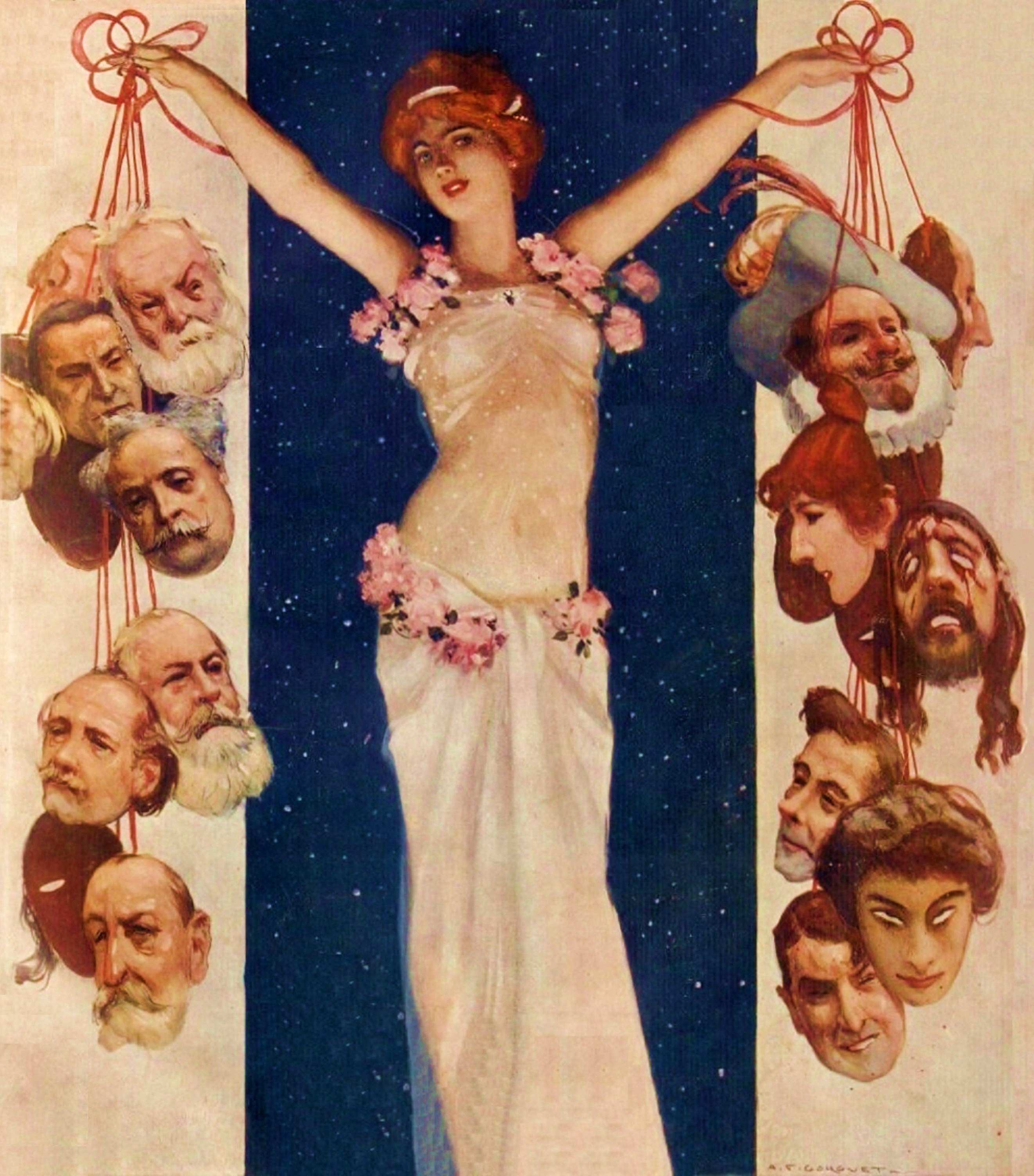 The symbolism of the theater. Chromolithography of Auguste François-Marie Gorguet for the newspaper, Comœdia Illustrated, in 1908.